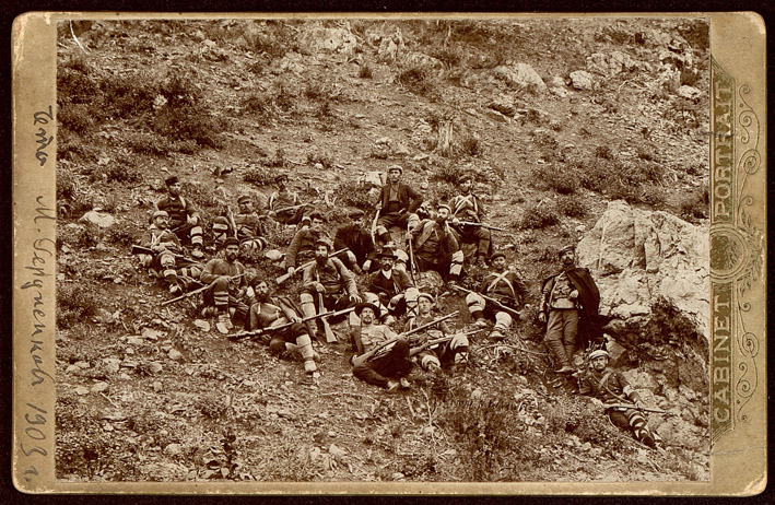 Bulgarian revolutionaries from IMARO, Thrace voevodi in Preobrazhenie Uprising, at right standing is Stamat Ikonomov